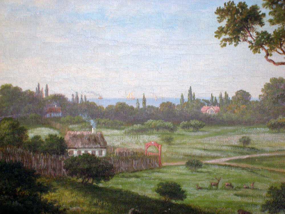 View of Taarbæk from Jægersborg Dyrehave. One of the houses in Ny Taarbæk i visible over the trees. The house in the foreground has burned.